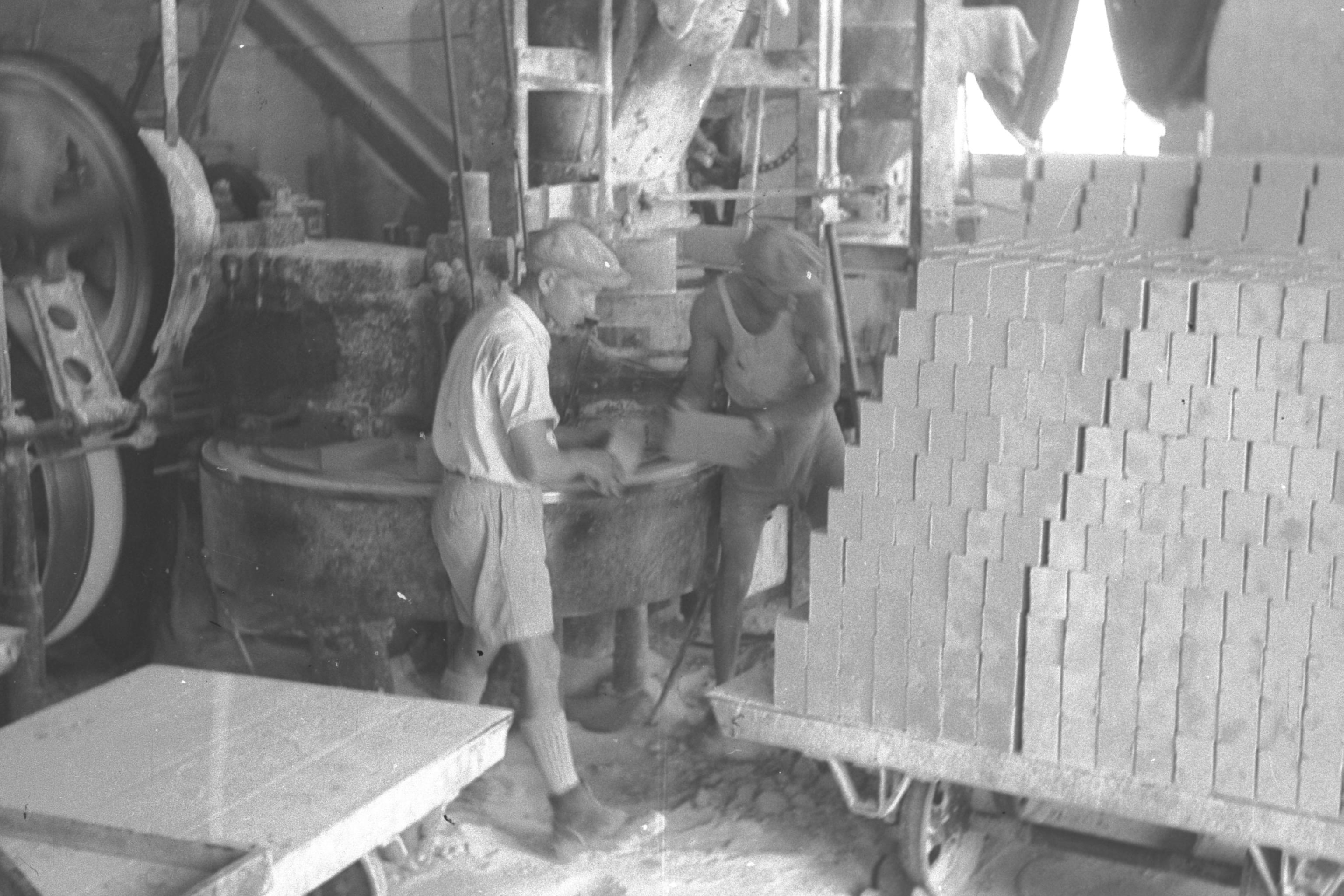 WORKERS LOADING BUILDING BRICKS ON A CART IN A TEL AVIV FACTORY. מפעל ללבני בנייה בתל אביב. בצילום, פועלים מעמיסים לבנים על עגלה.